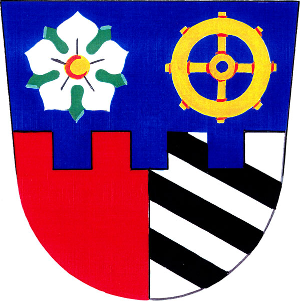 Municipal coat of arms of Uhřice village, Vyškov District, Czech Republic.